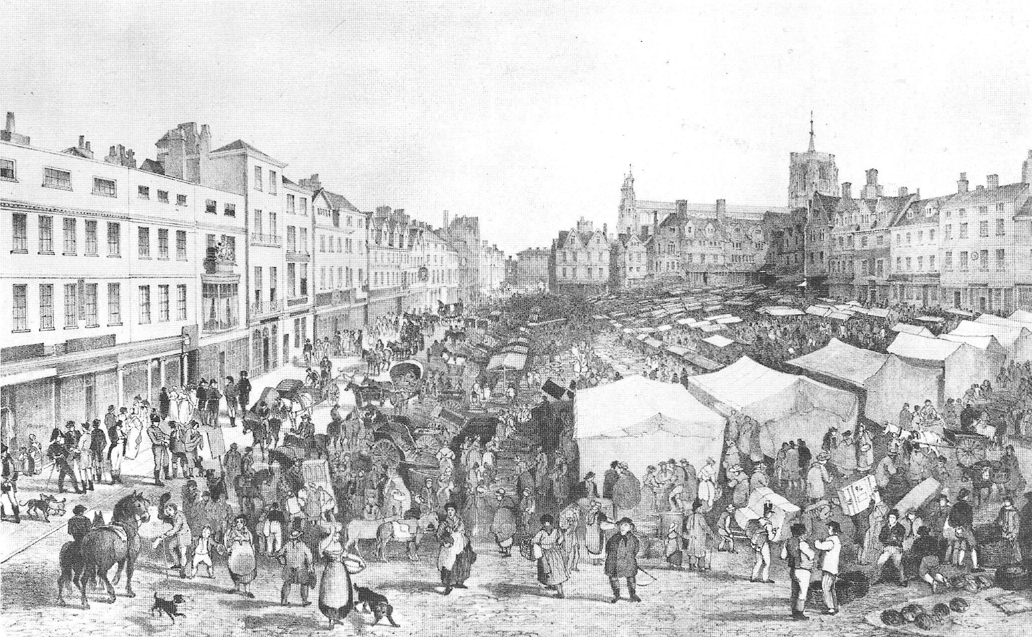 Norwich Market Place, John Sell Cotman, lithographer H. Ninham